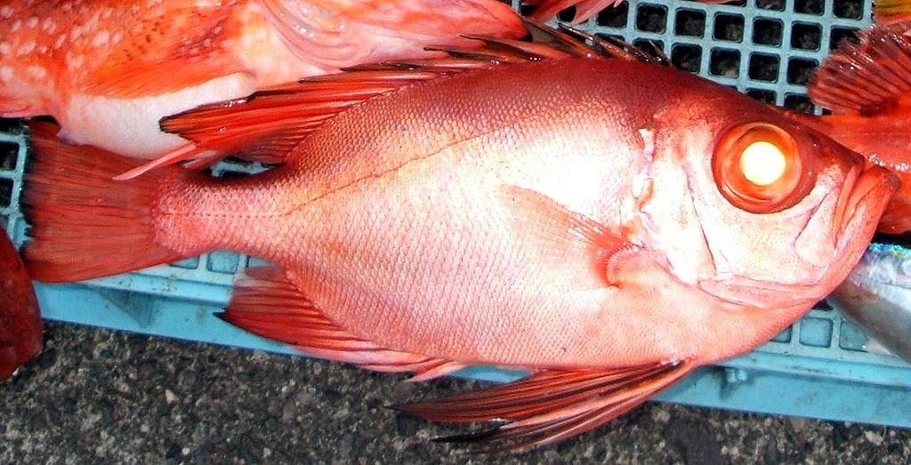 Longfinned bullseye Cookeolus japonicus (Cuvier, 1829)